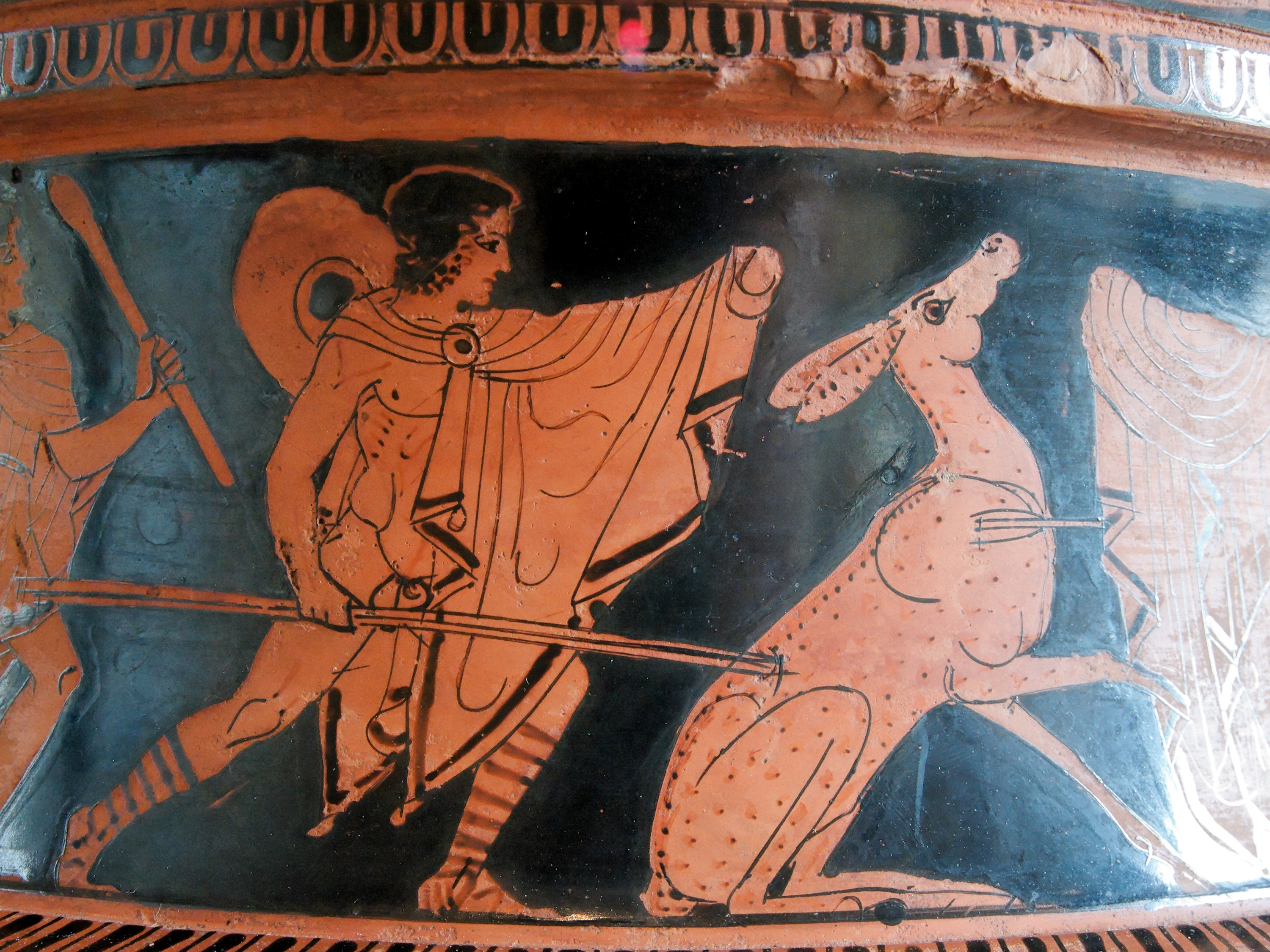 Scene of doe hunt. Side B of the neck of an Attic red-figure volute-krater, ca. 460–450 BC.